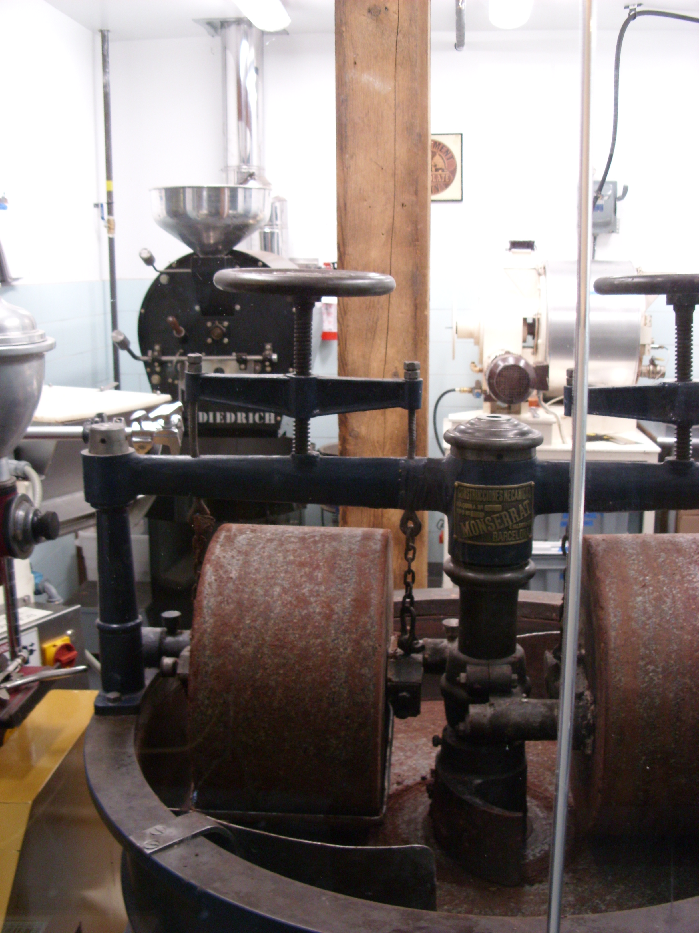 Various Chocolate-making machinery, at "Soma" chocolate shop, Distillery District, Toronto, Ontario, Canada